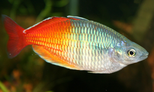 Image of the Melanotaenia boesemani, male red variety fish